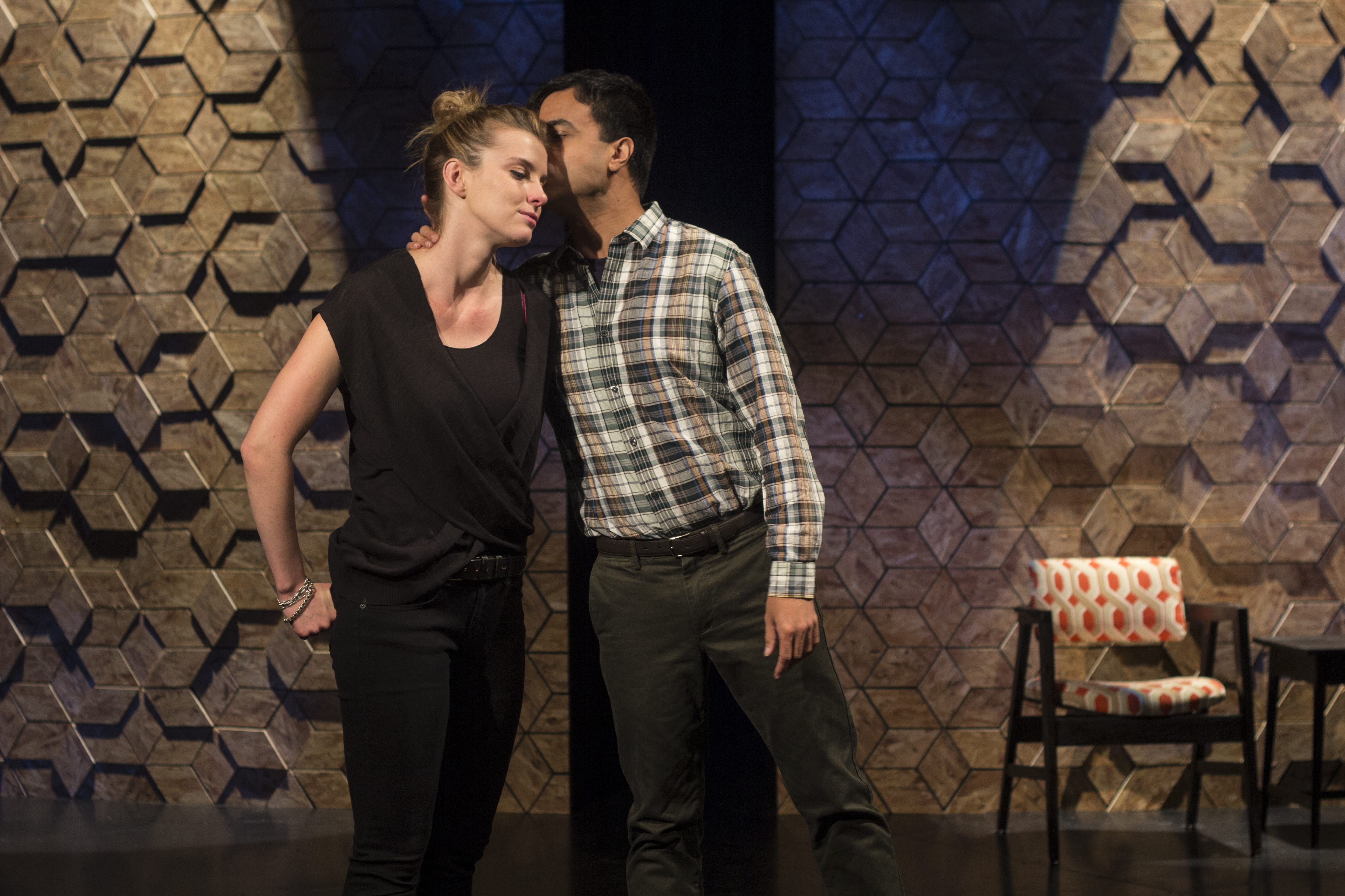 Pictured (L to R): Betty Gilpin (A) and Debargo Sanyal (B). Photograph Paul Fox.